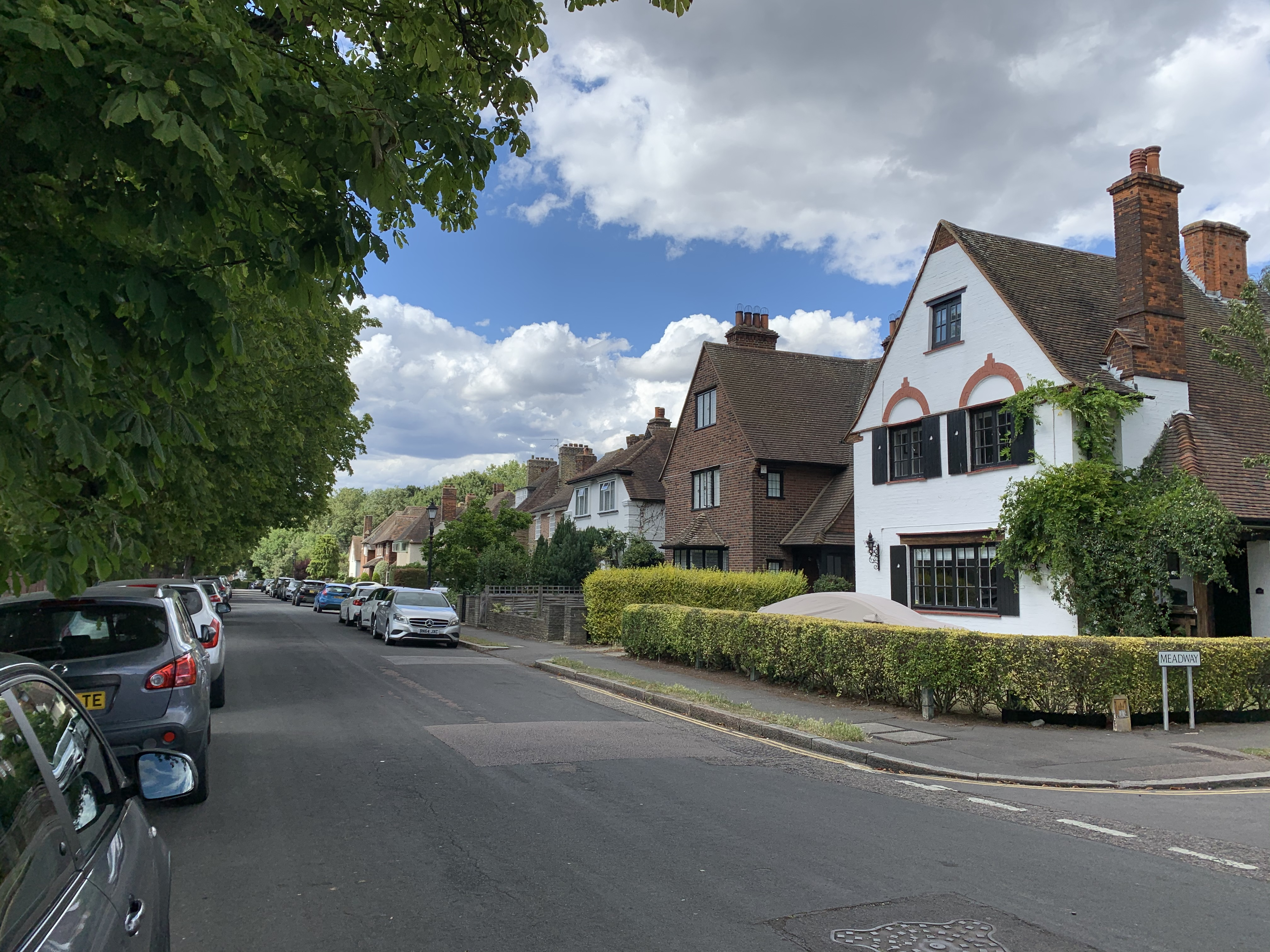 Street scene, Parkway, Gidea Park, Romford, UK